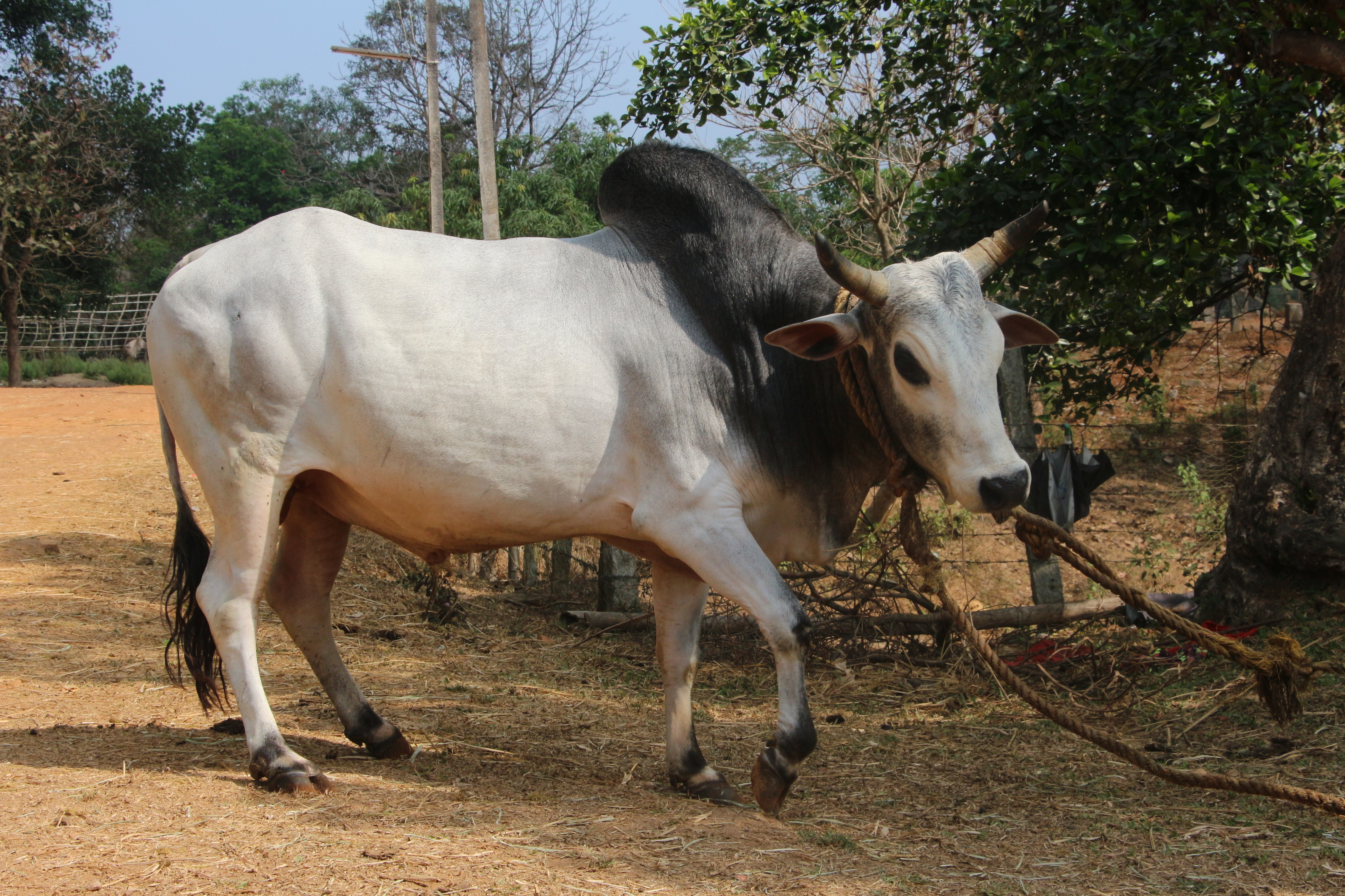 Indian cow breed Kerigar ಕನ್ನಡ: ಭಾರತೀಯ ಗೋತಳಿ ಕೇರಿಗರ್